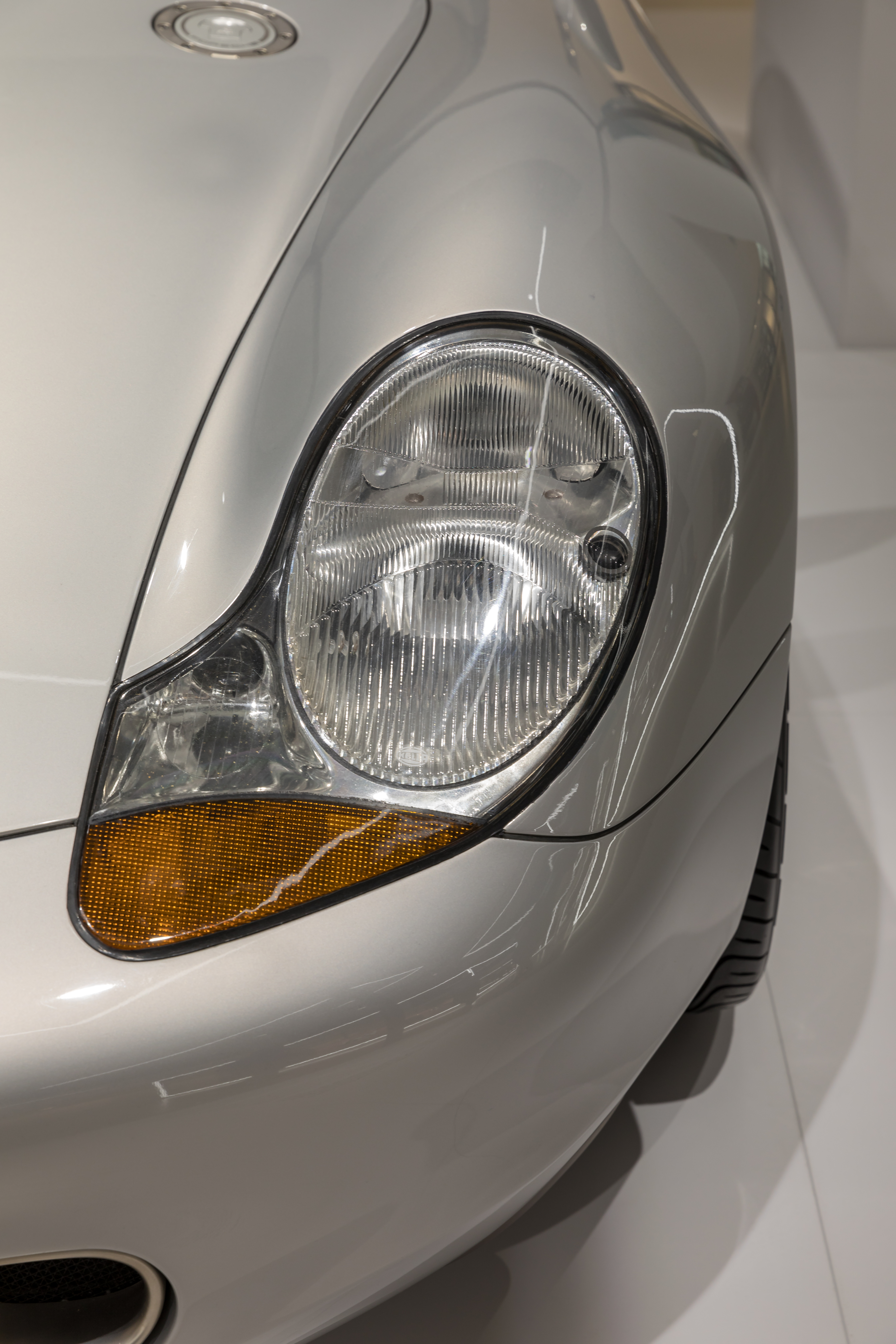 70 Years Porsche, DRIVE. Volkswagen Group Forum